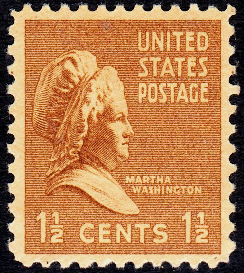 US Postage stamp, 1938 Presidential issue, Martha Washington, 1½c